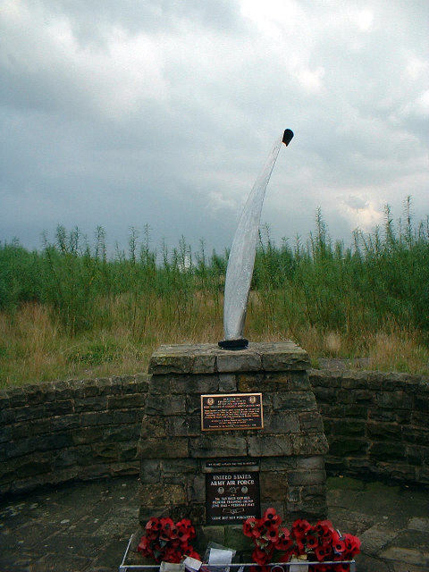 Goxhill Airfield - Memorial, Goxhill, Lincolnshire, England.United States Army Air Corps Memorial.